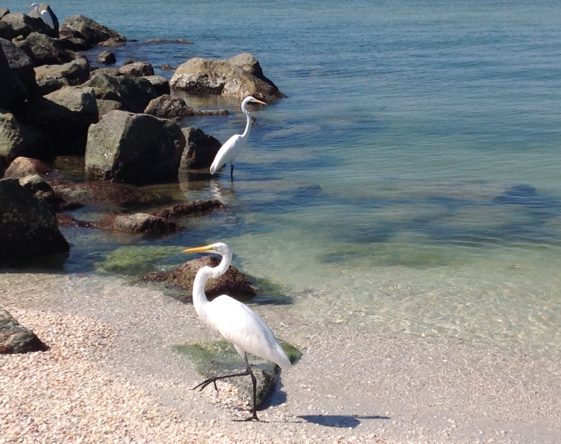 Egrets enjoying the water at Treasure Island, Florida.